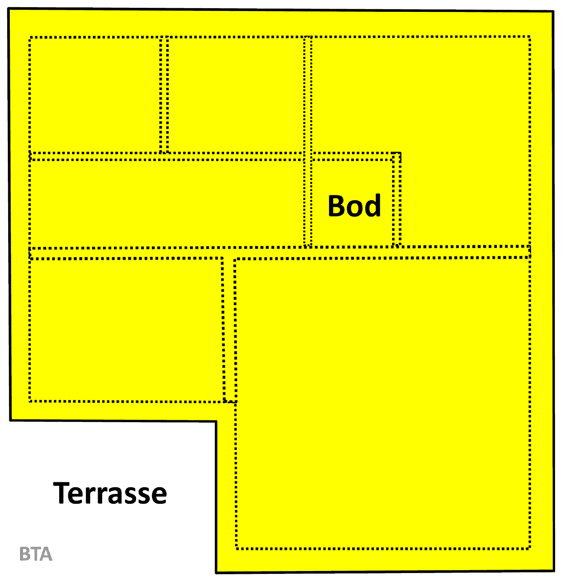 Measuring_Gross_Floor_Area_Norway